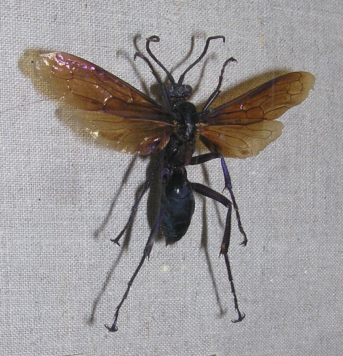 Pepsis vitripennis. Saint Petersburg Museum of Zoology, Russia.